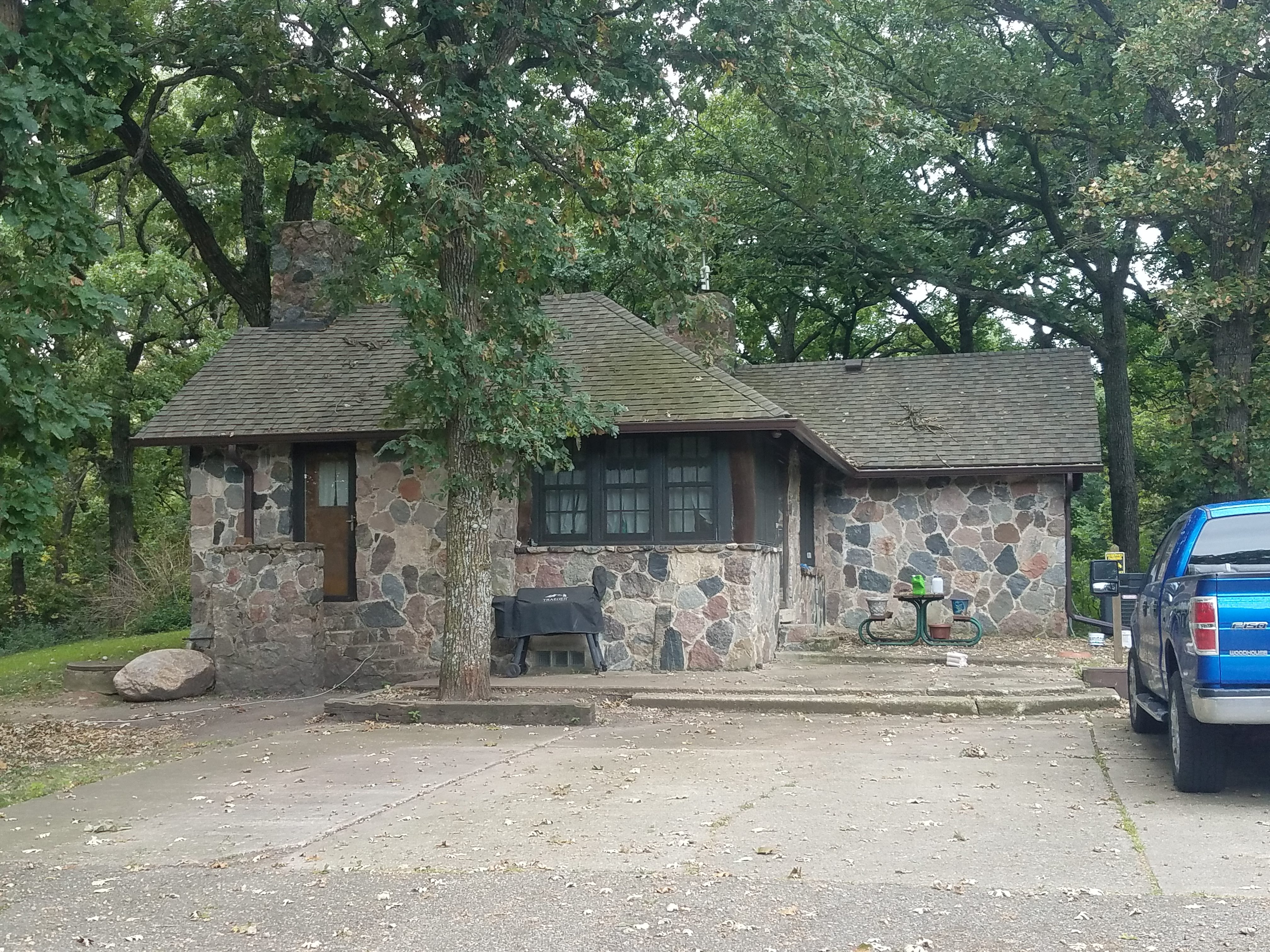 Dickinson County, Gull Point State Park, Area B - custodian's residence. Wikidata has entry Q62926972 with data related to this item.